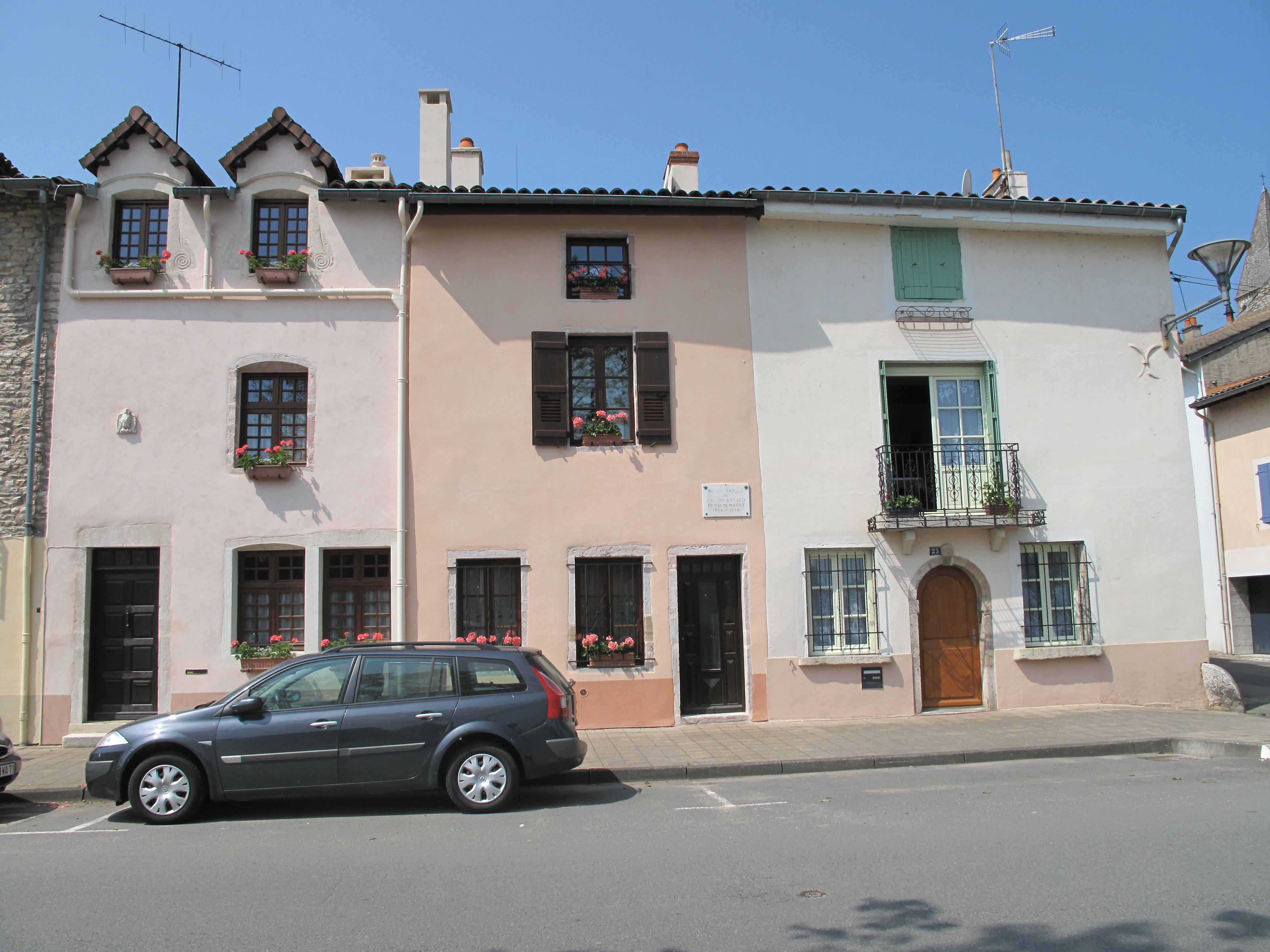 House were was born Simone Evrard, wife of Jean-Paul Marat 20 quai du Nord in Tournus (Saône-et-Loire, France).